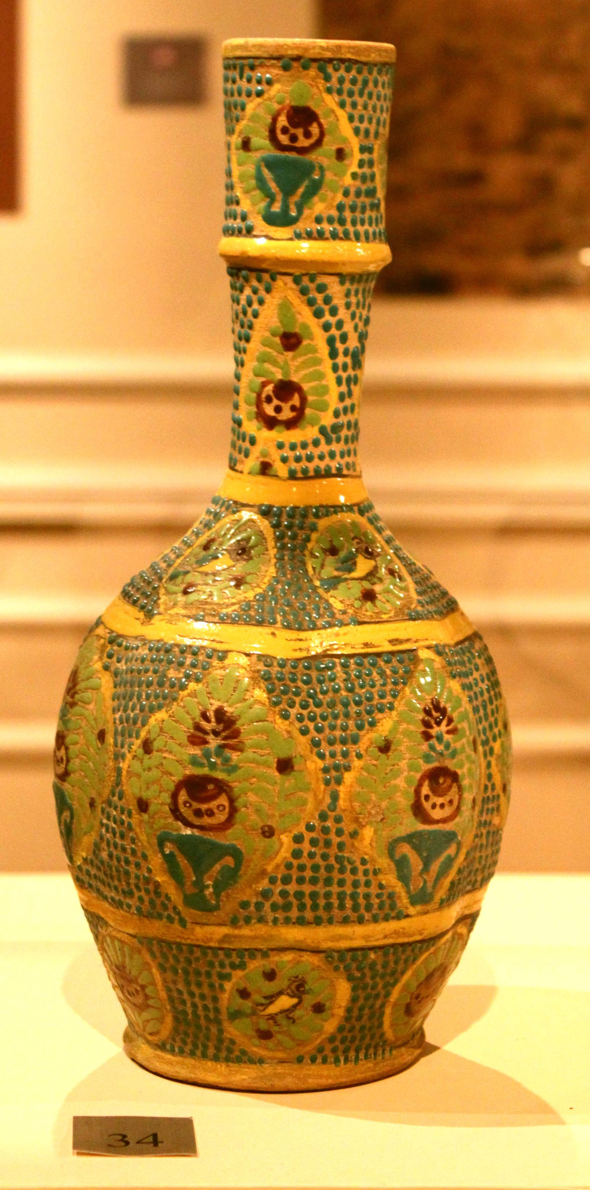 Azerbaijani Atabeks era vase from Ganja